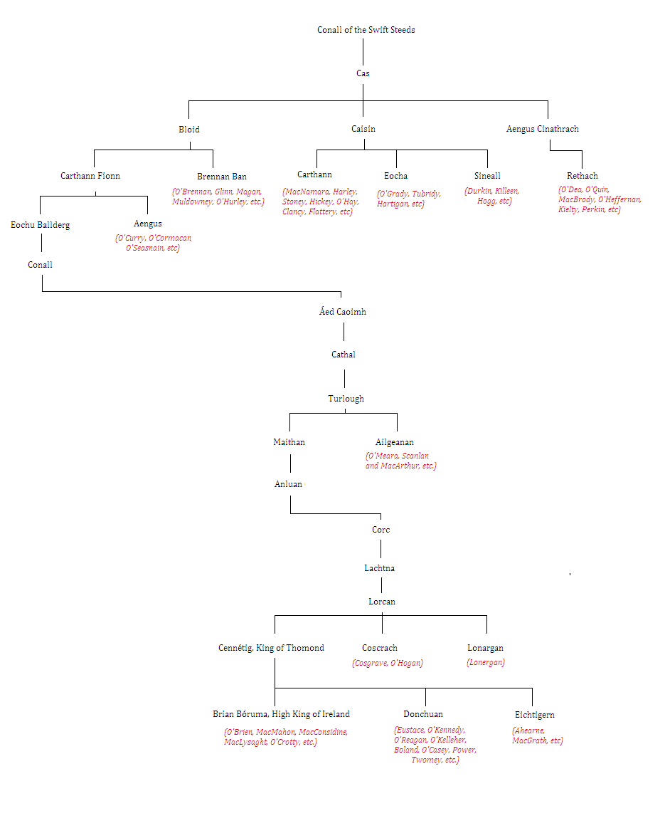 Septs & Families of the Dalcassians (Dál gCais)